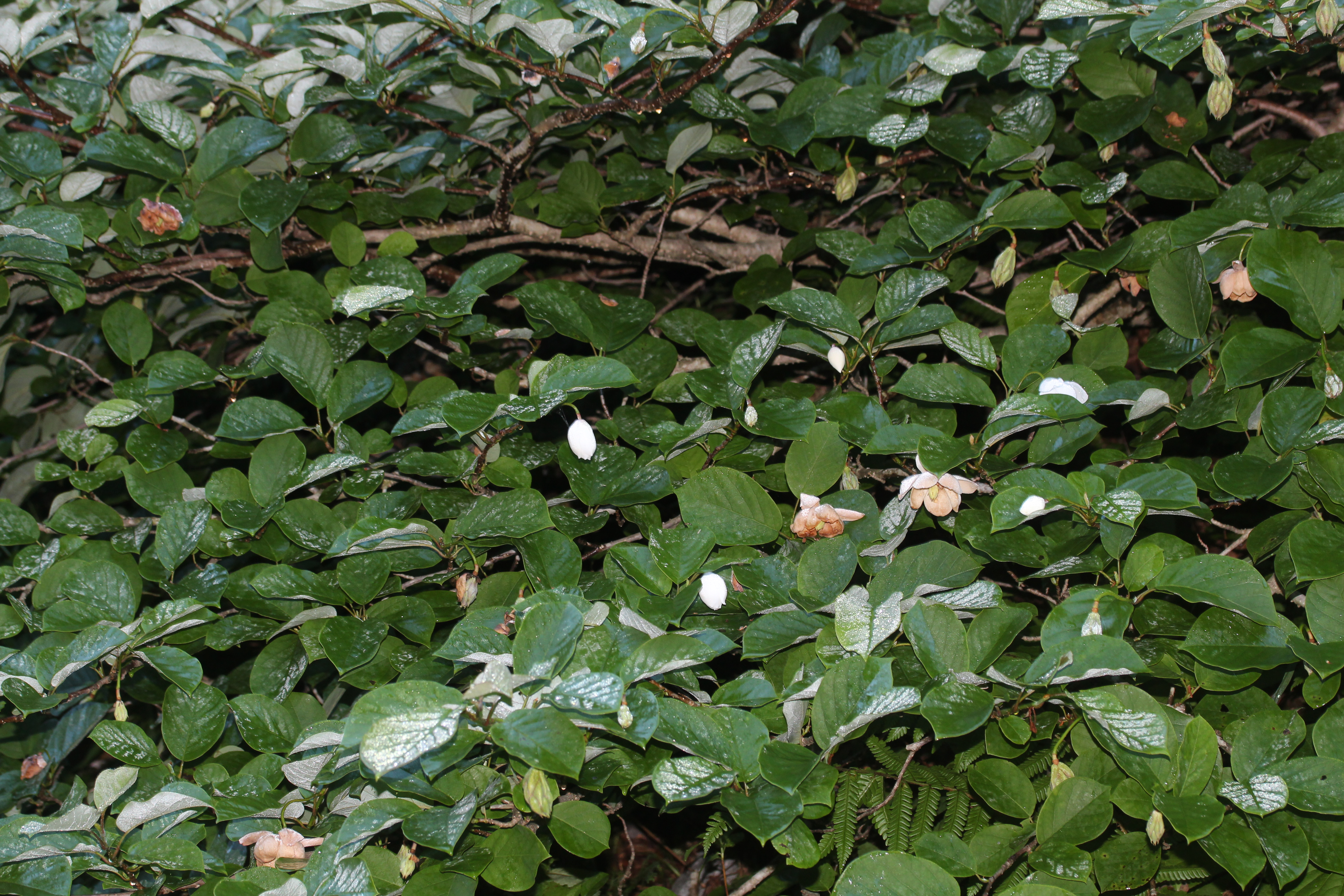 Magnolia sieboldii subsp. japonica in Mount Nakazahi of Hida Mountains, Takayama, Gifu prefecture, Japan.